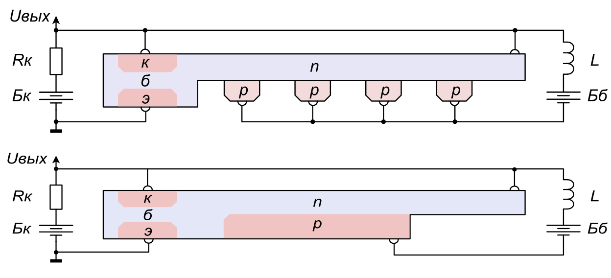 The monolithic oscillator circuit by Harwick Johnson, 1953 - the first historical patent for a monolithic IC.